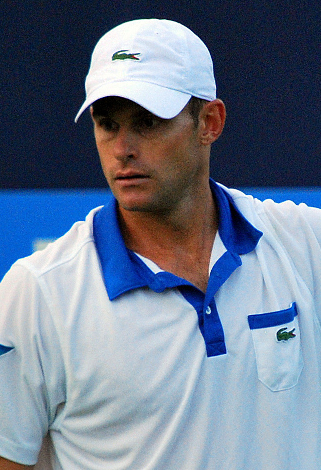 Andy Roddick at the Queen's Championships 2012